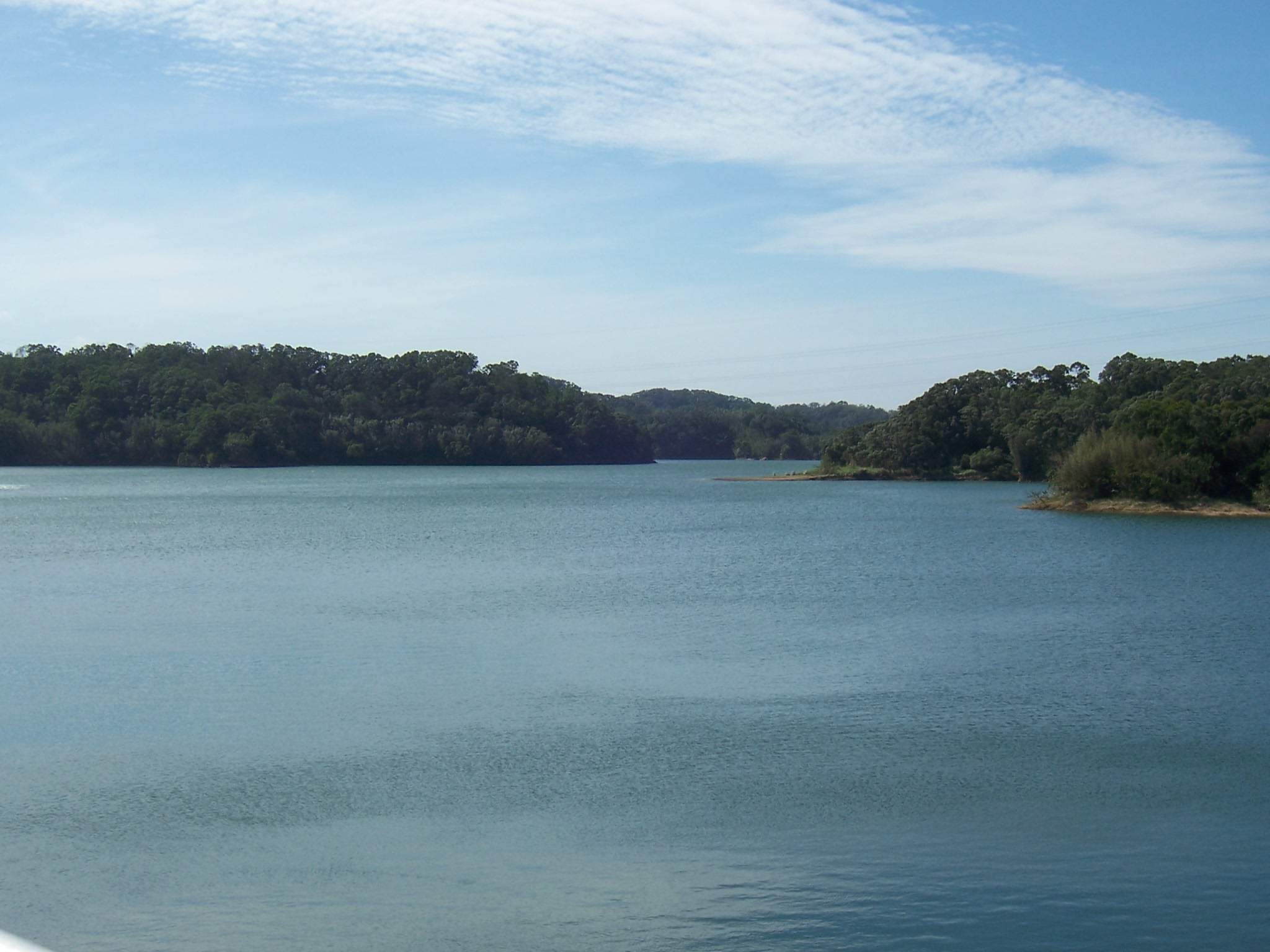 Yonghe Shan Reservoir.It's taken in Sanwan Township, Miaoli County, Taiwan. 永和山水庫，攝於台灣苗栗縣三灣鄉。